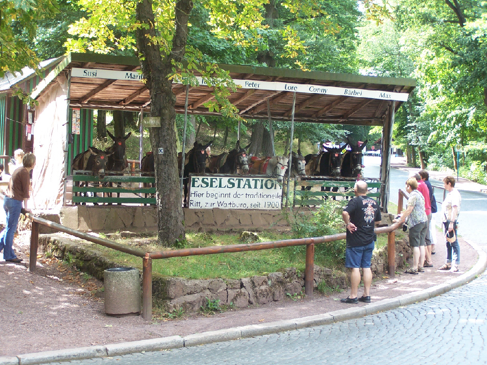 The famous donkey station at the Wartburg trail.